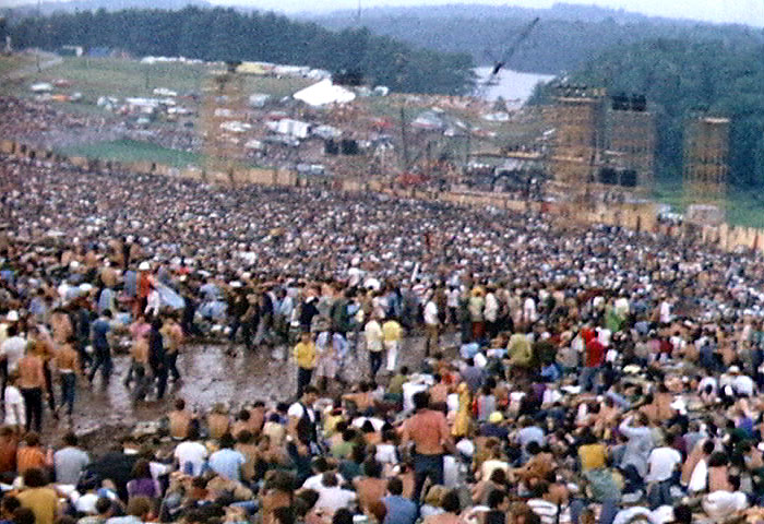 The crowd at Woodstock fills a natural amphitheatre with the stage at the bottom.